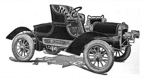 This is a drawing of a 1905 Kansas City Motor Car Company Two Passenger Runabout used originally for advertising the car when new.